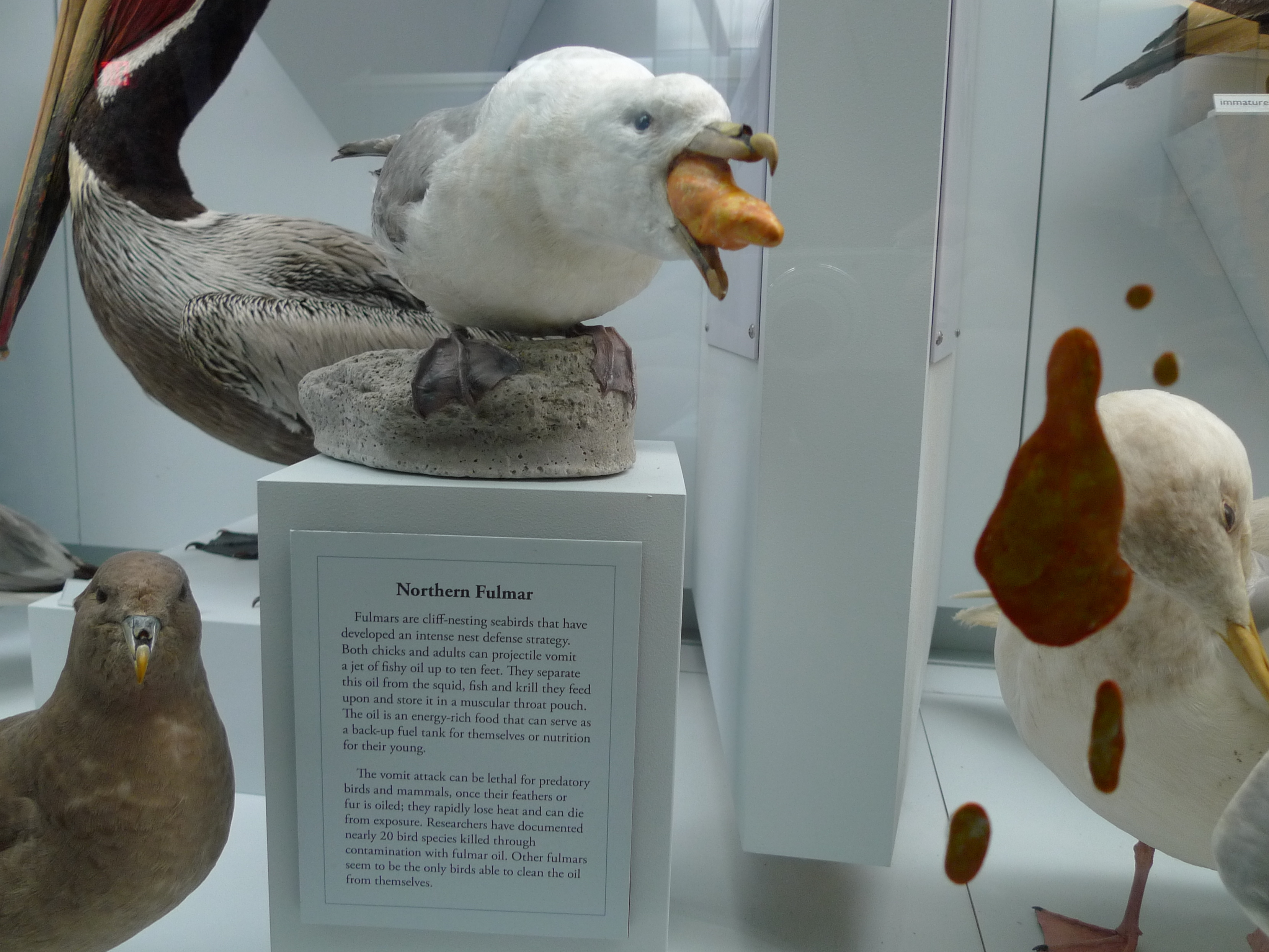 Museum display demonstrating the stomach oil attack of the northern fulmar, a sea bird of the North Atlantic and North Pacific oceans. At the Museum of Natural History in Santa Barbara, California.